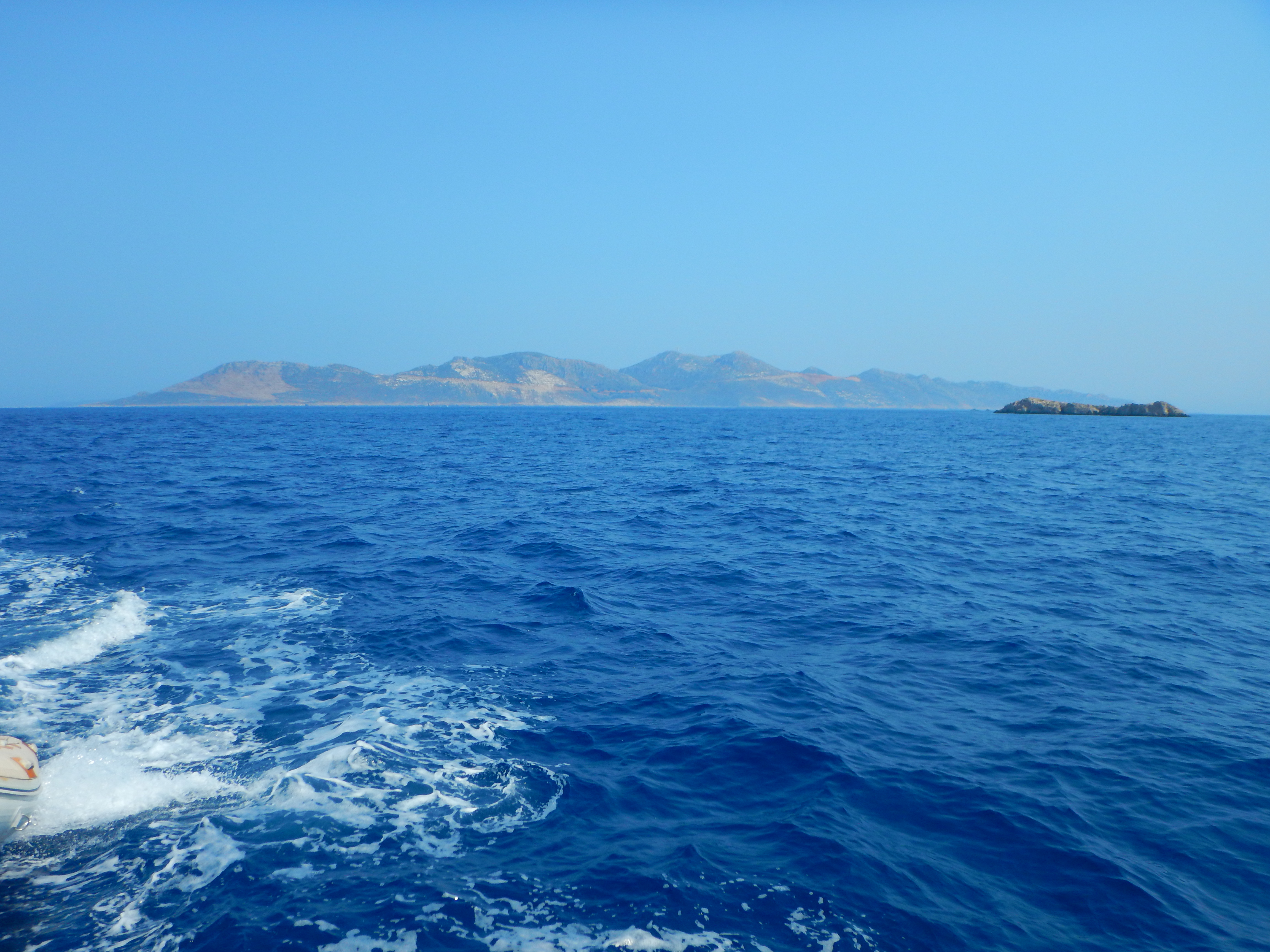 The Greek island of Rho west of Kastelorizon seen from WNW